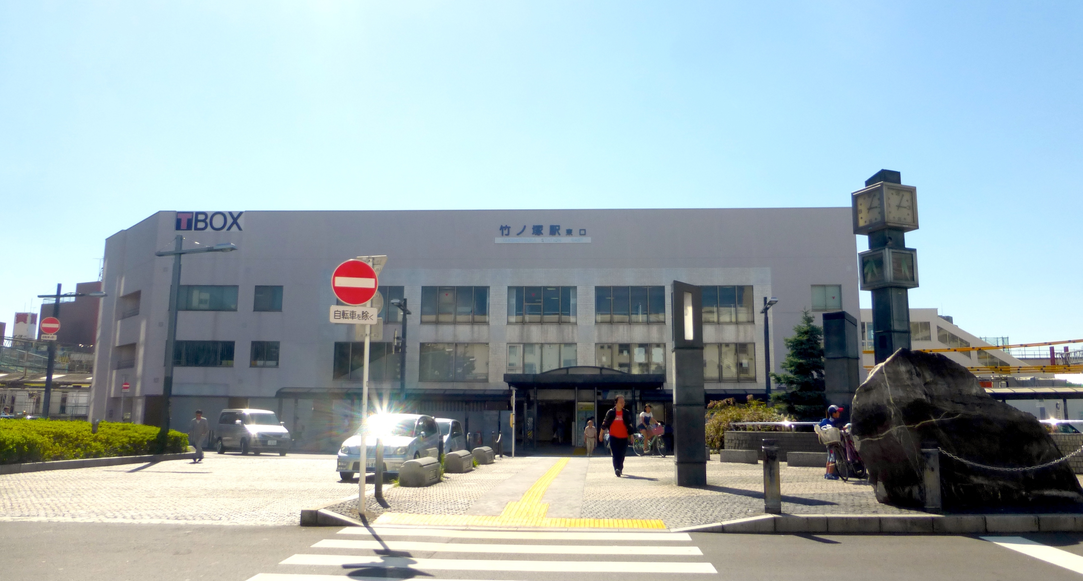 Takenotsuka Station east exit